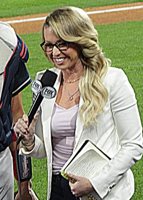 This photo was taken at Coors Field shortly after the completion of a game against the Rockies.